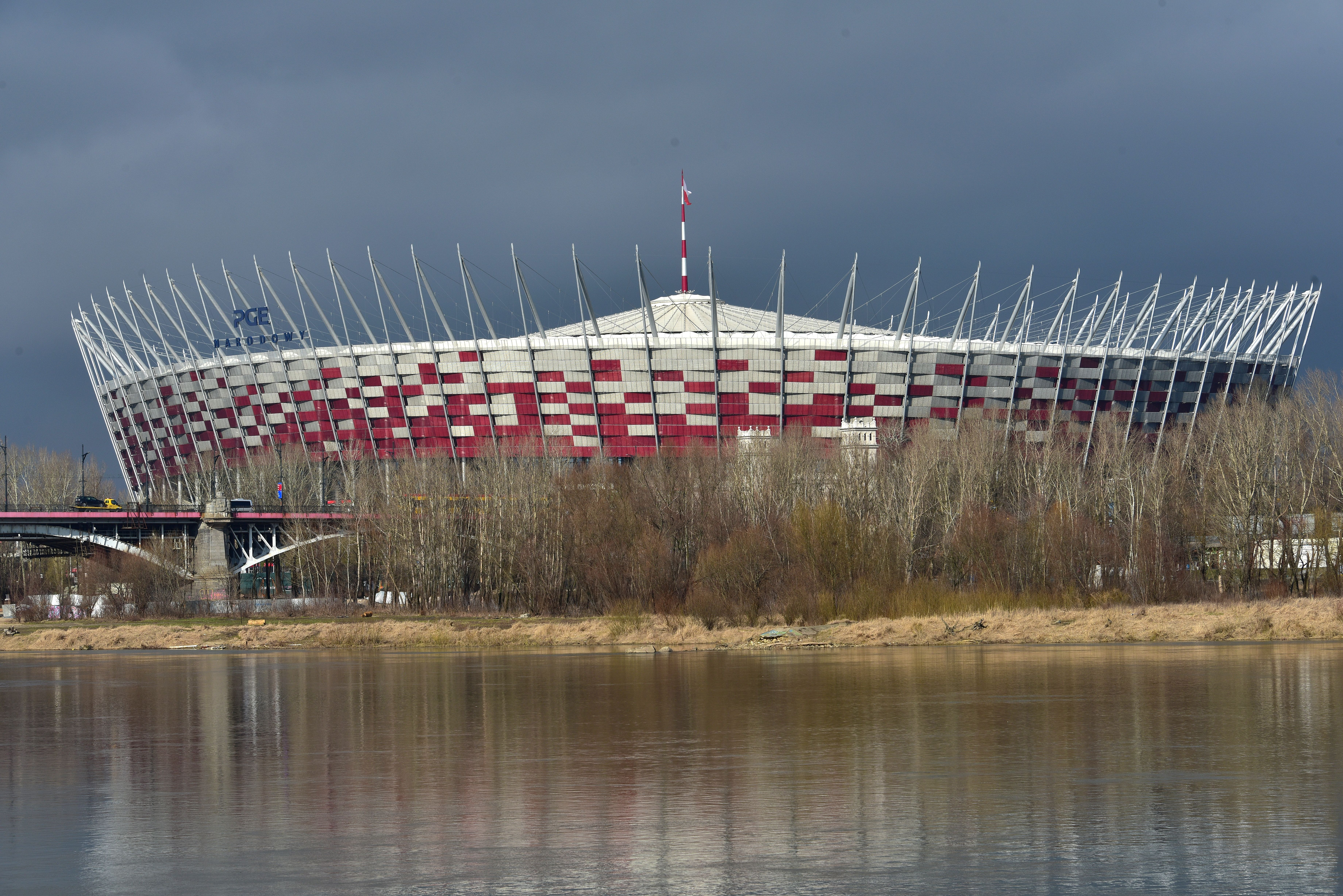 National Stadium in Warsaw viewed from the Vistula